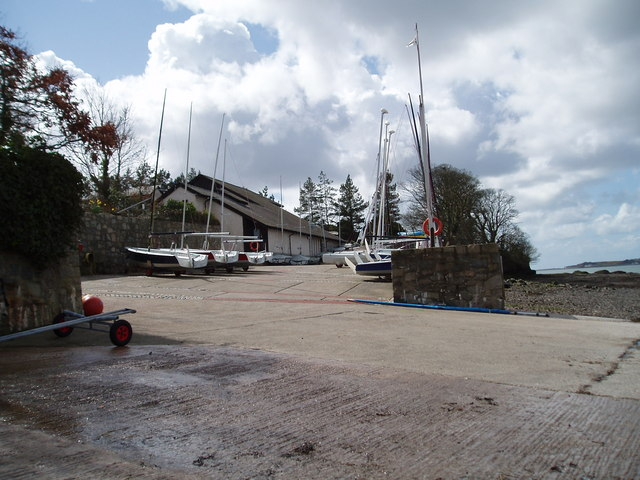 Plas Menai, the National Watersports Centre for Wales. Courses are run here for water-sports,outdoor adventure,and expeditions